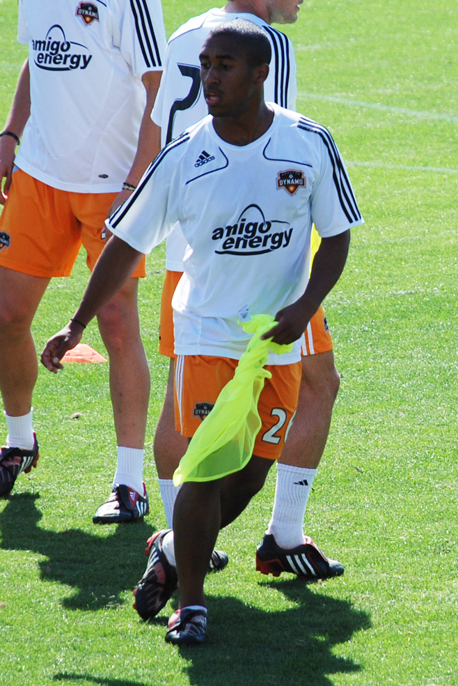 Corey Ashe